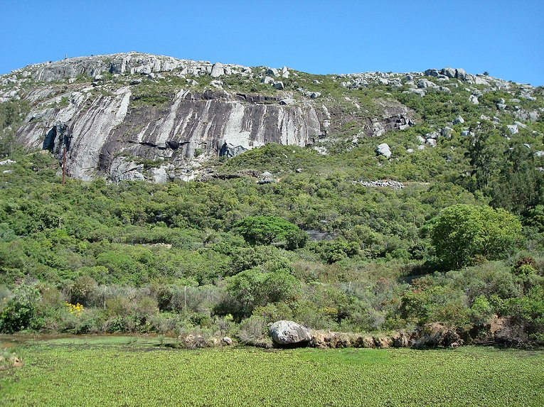 The east slope of Cerro Pan de Azúcar seen from the Reserva de Flora y Fauna del Pan de Azúcar (nature reserve), Maldonado Department, Uruguay.